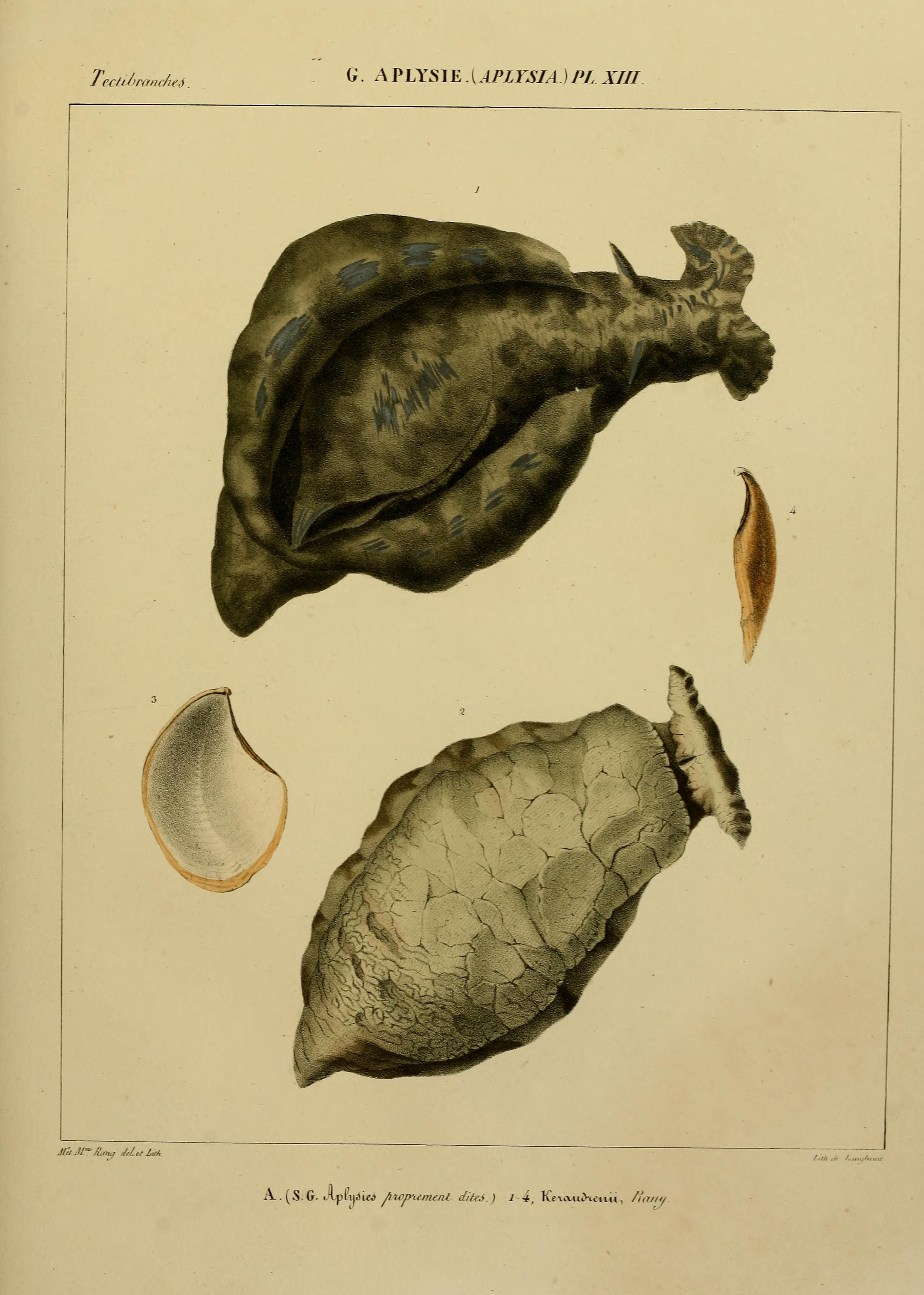 M. Sander Rang, 1828 Histoire naturelle des Aplysiens : première famille de l'ordre des tectibranches De L'imprimerie de Firmin Didot